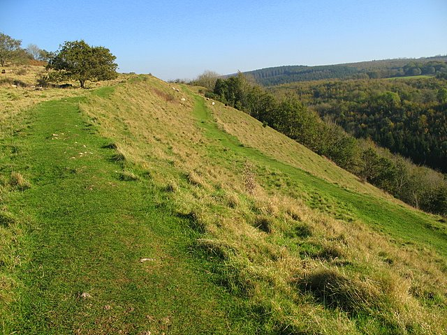 Dolebury Hillfort southern ramparts The ramparts at Dolebury Hillfort have been dated to 3rd & 4th Centuries BC. The southern ramparts descend steeply into Dolebury Bottom (to the right). The higher land in the top right of the photograph is Blackdown (Beacon Batch) - the highest point on the Mendip Hills at 325m.